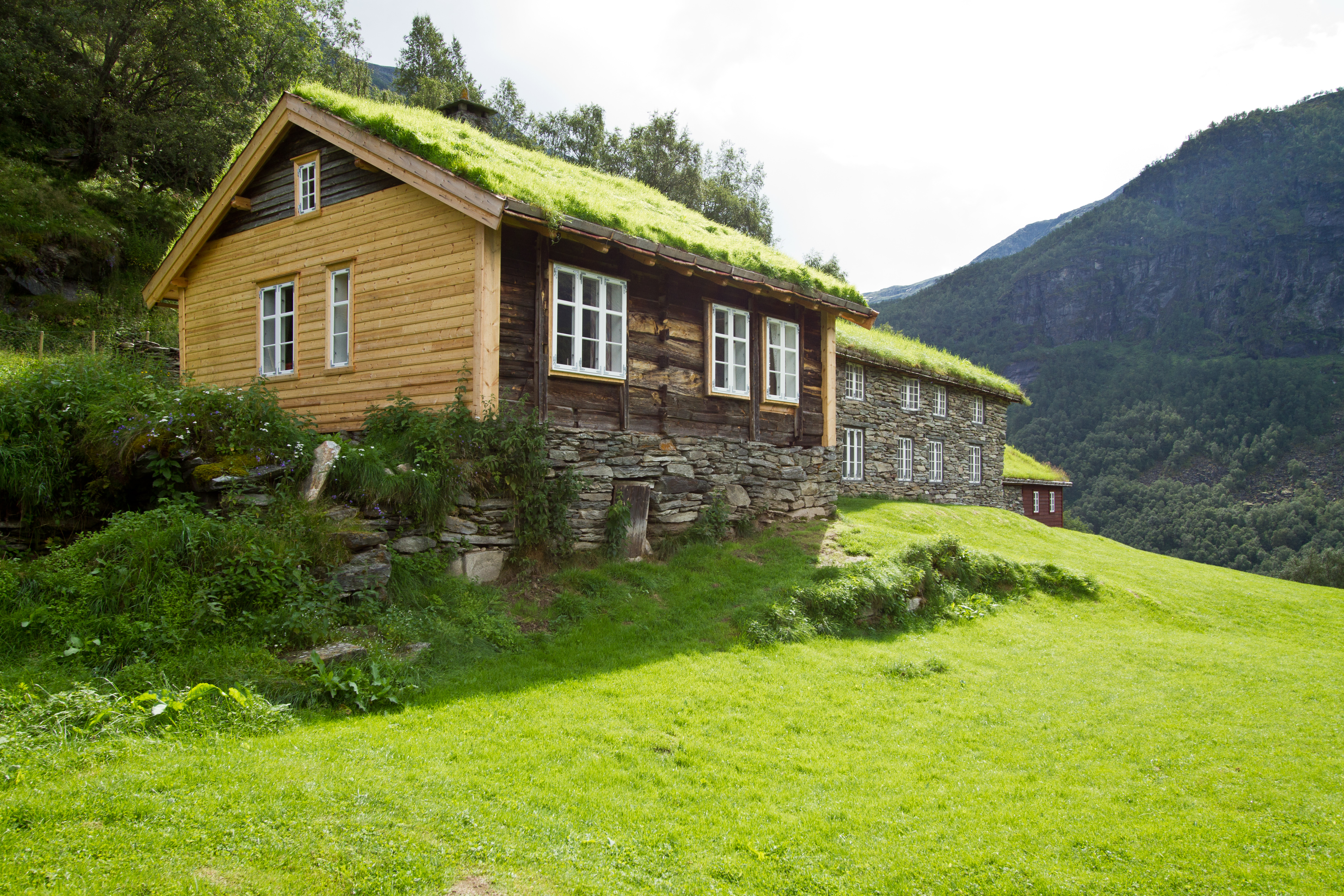 Picture of the houses on FuglestegNorsk bokmål: Bilde av husa på Fuglesteg